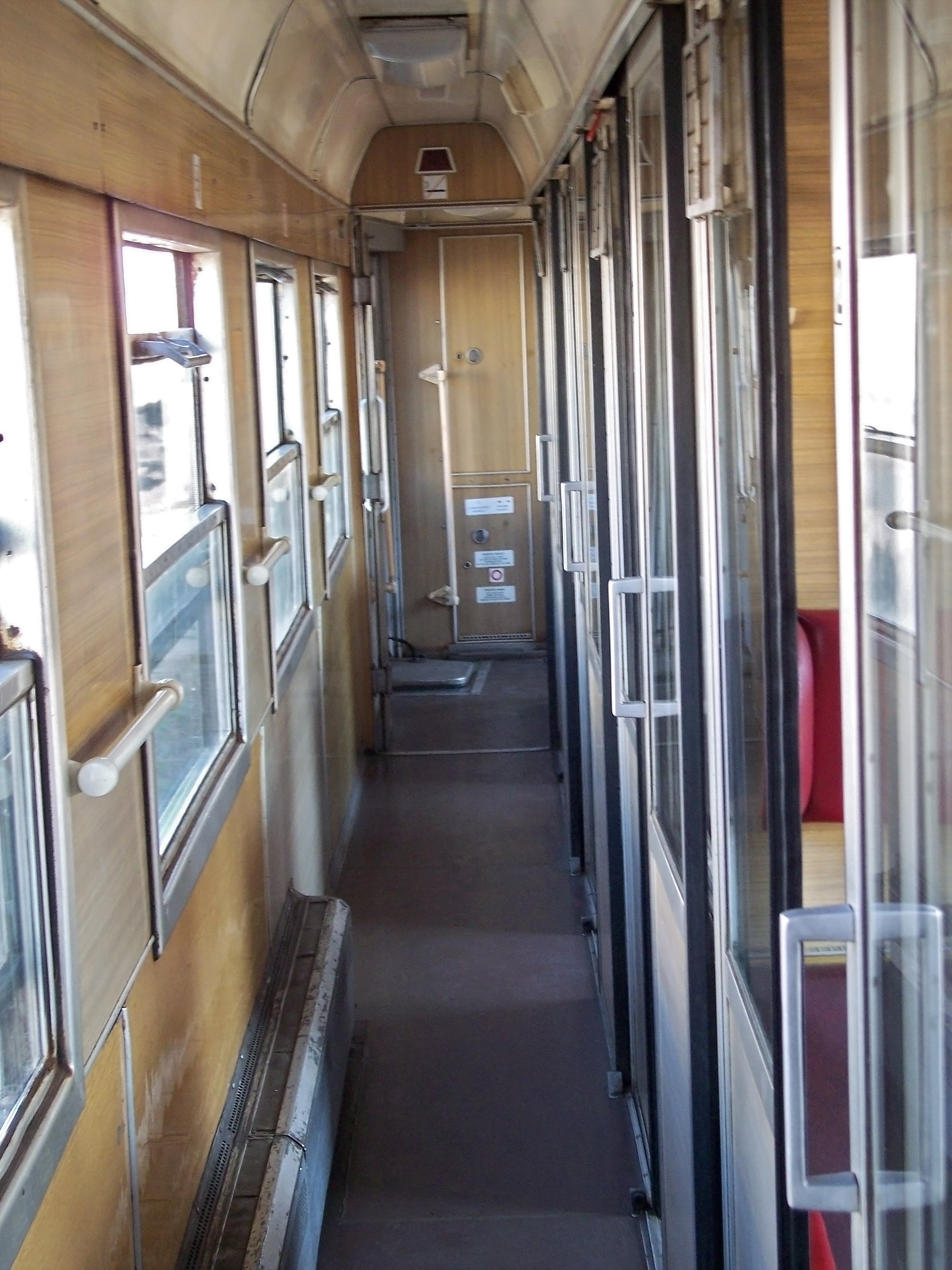 Inside a typical passenger train in Hungary (2007)